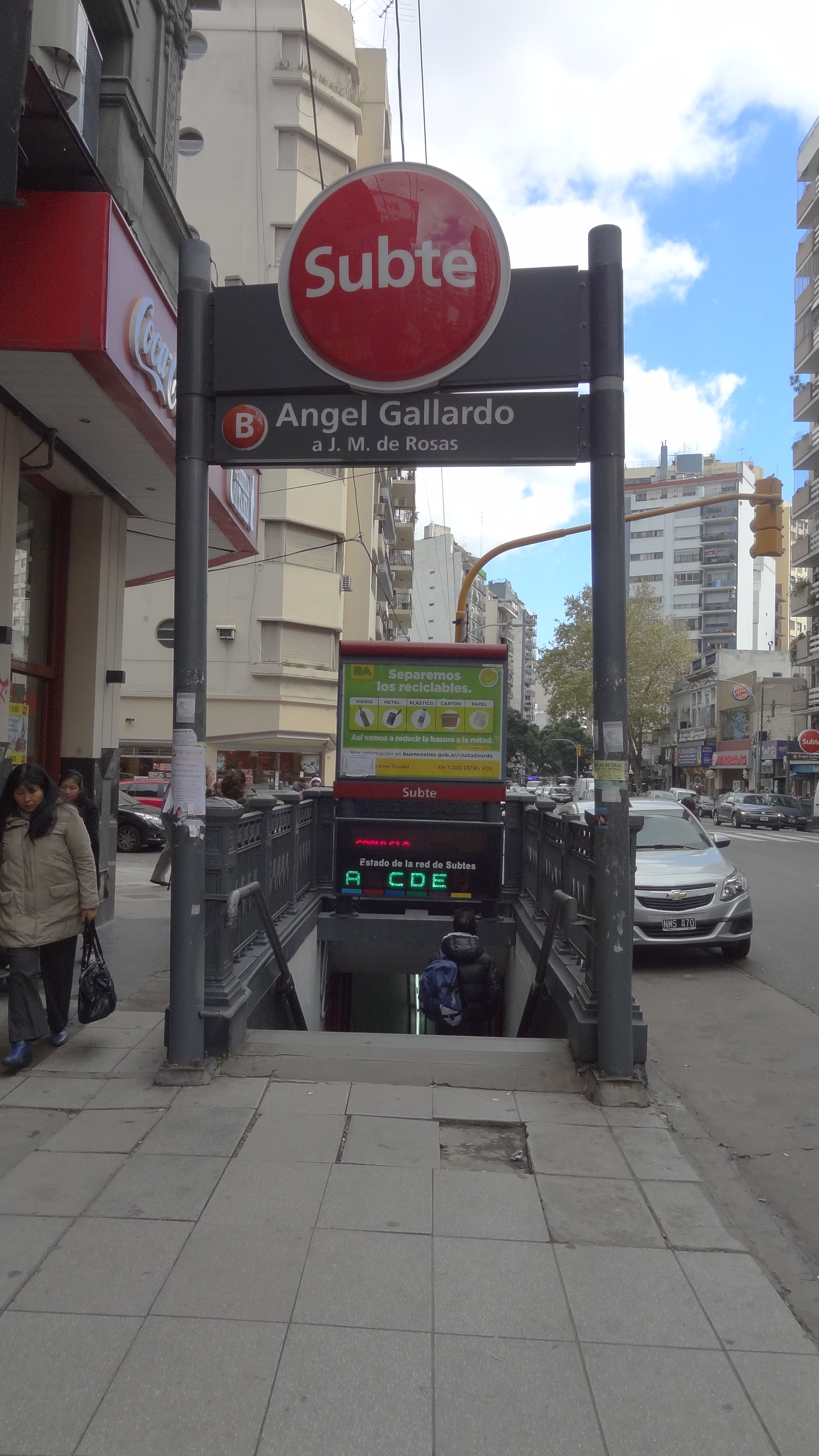 Access to Gallardo station, of the buenos aires metro